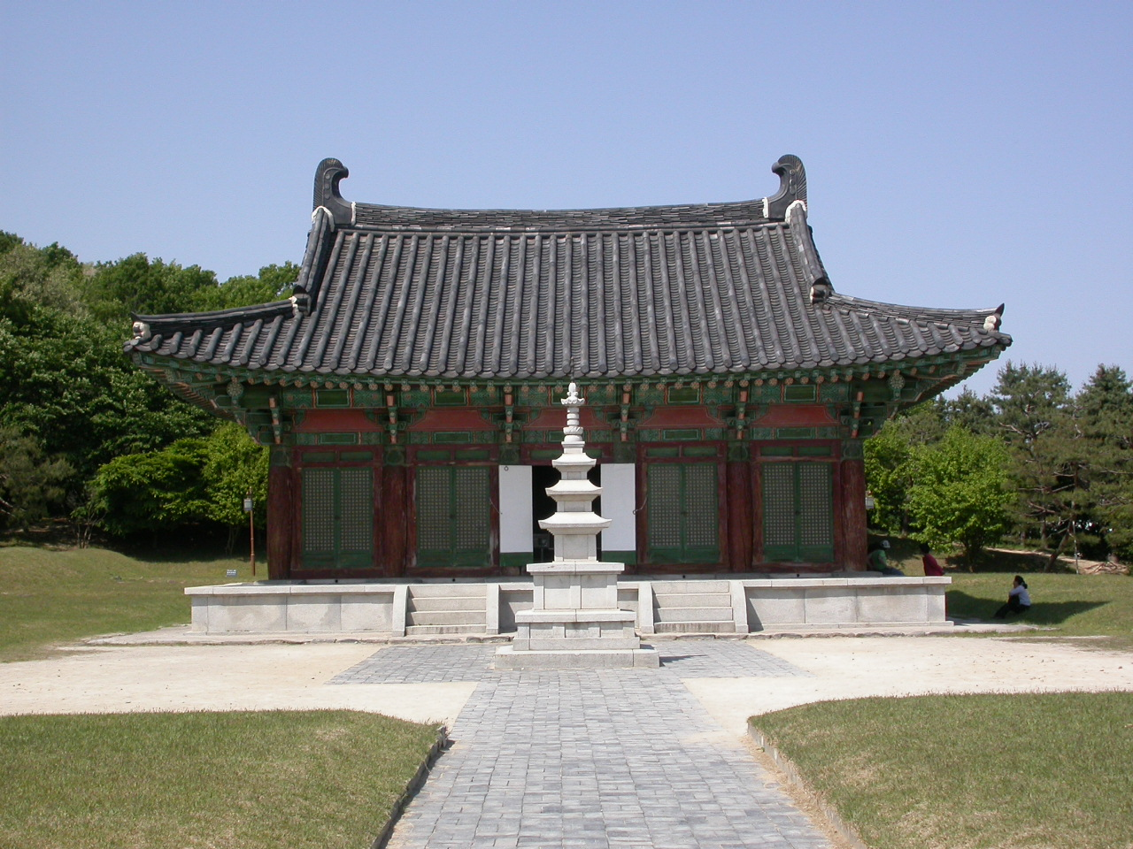 Cheongju Heungdeoksaji